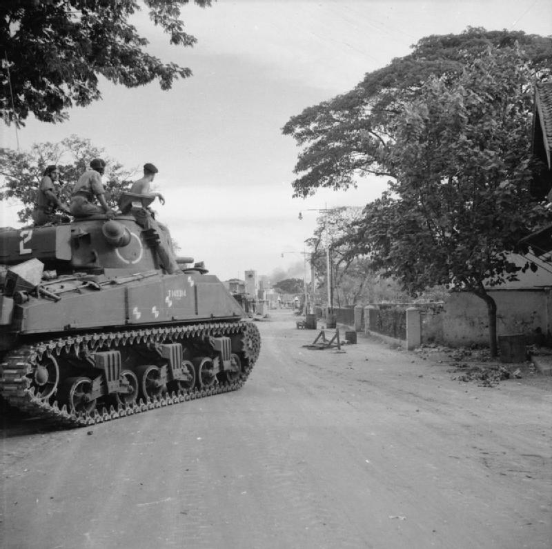 The British Occupation of Java A Sherman tank involved in street fighting against Indonesian nationalists in Surabaya (Soerabaja).